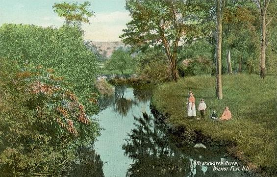 Blackwater River, Wilmot Flat, NH; from a c. 1910 postcard.